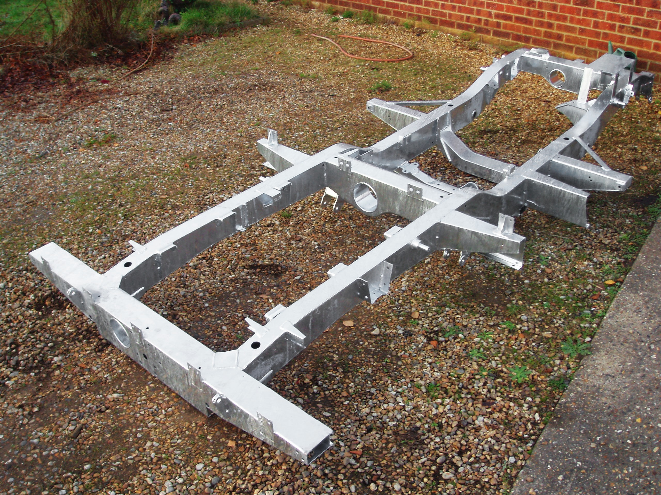 A galvanised Land Rover Series III frame.